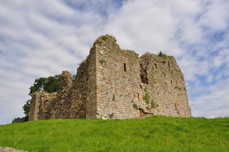 Thirlwall Castle, Data from Geograph: Description: 12th century L shape manor/castle built from stone from Hadrian's wall. Open during daylight hours. ICBM: 54.989217051165, -2.5336695496305 Location: (about 1 km from) near to Greenhead, Northumberland, Great Britain.